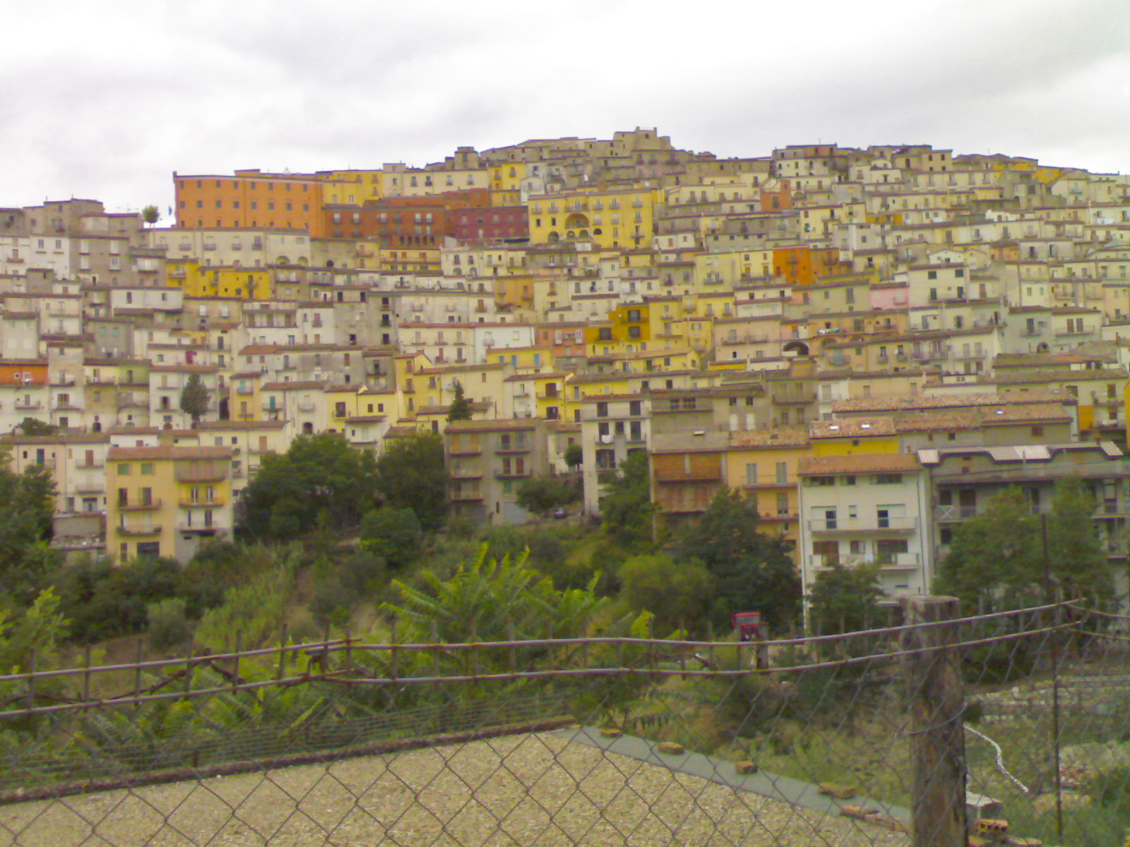 Calitri town, in province of Avellino, Italy.